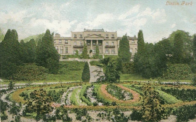 Postcard of Linton Park house, Linton, Kent from Valentines Postcards, 1906